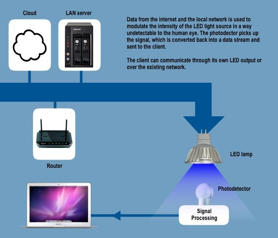 lifijjhjh nbjb